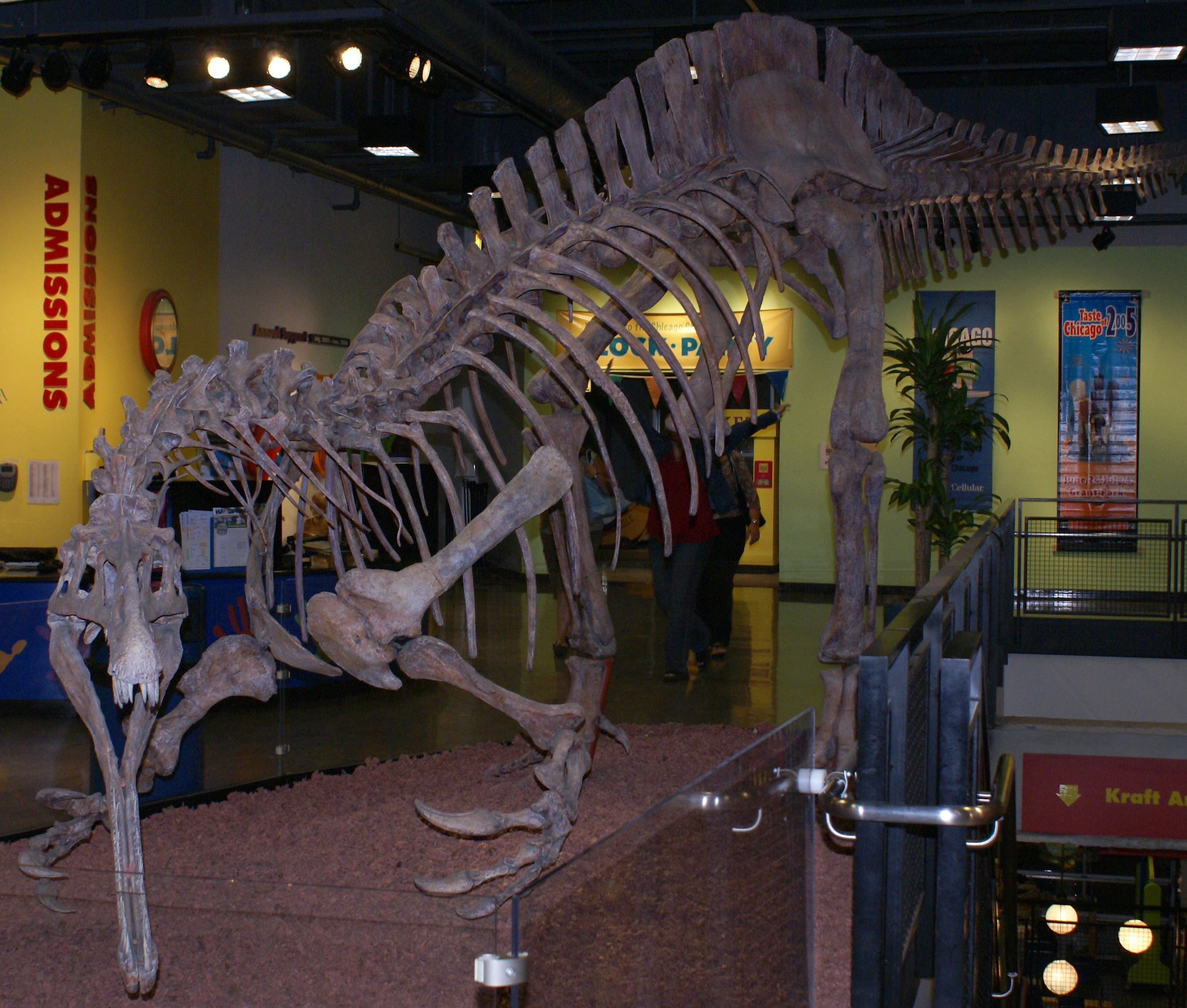 Mounted Suchomimus skeleton, Chicago.